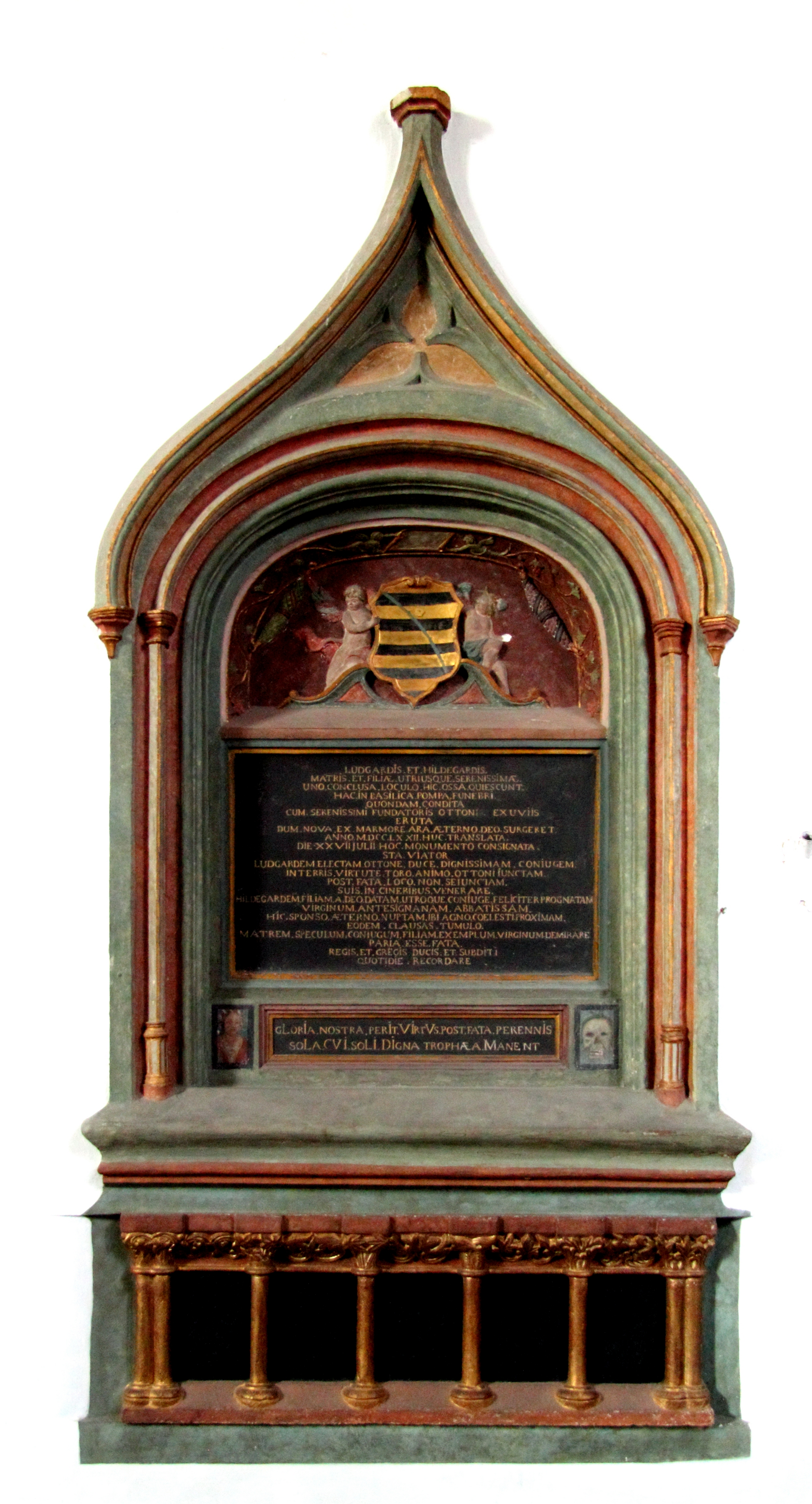 Aschaffenburg, epitaph in St. Peter and Alexander collegiate church